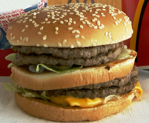 photography day, 2007/2/4 photography person kici